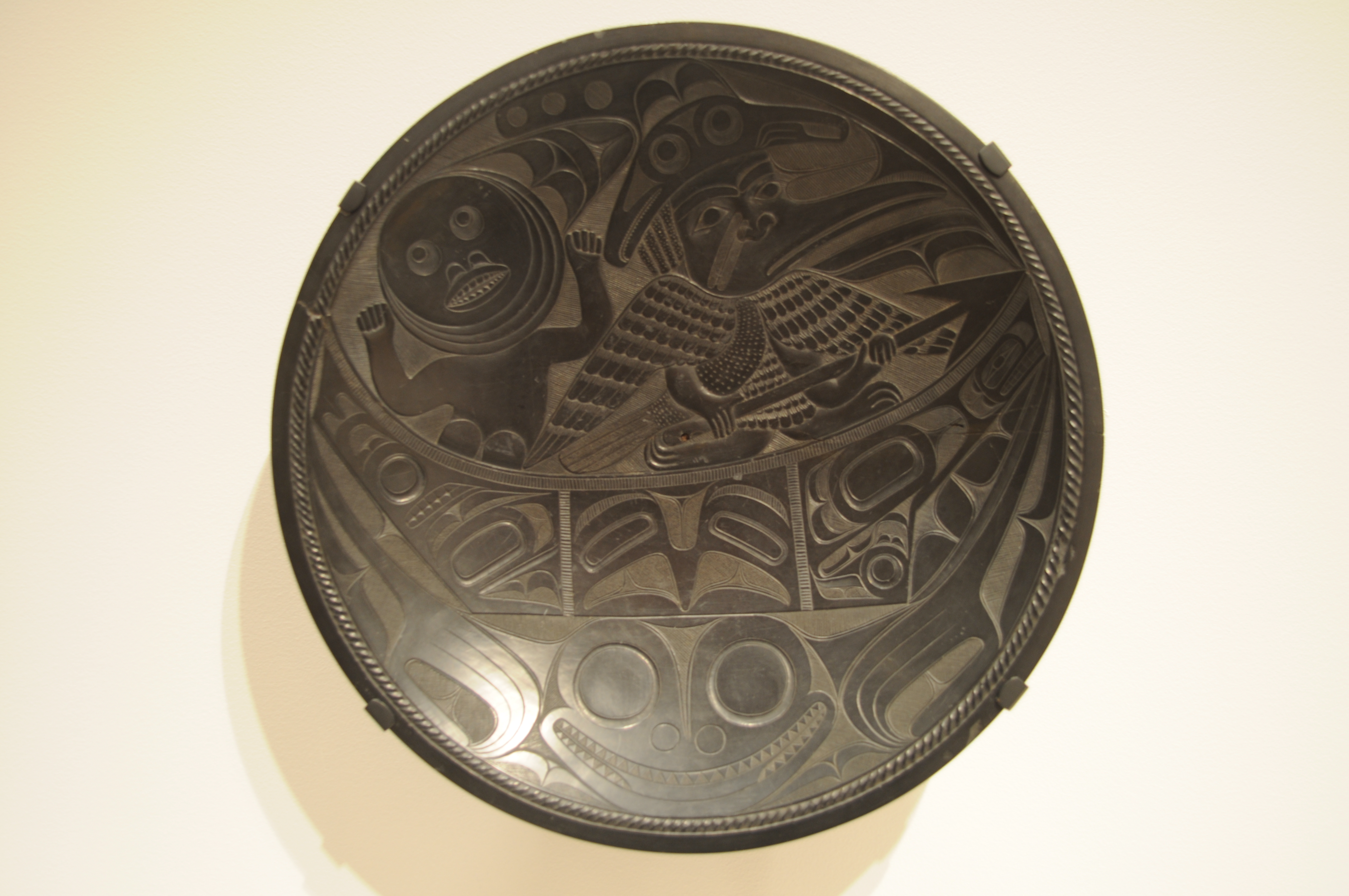 Carved argillite platter